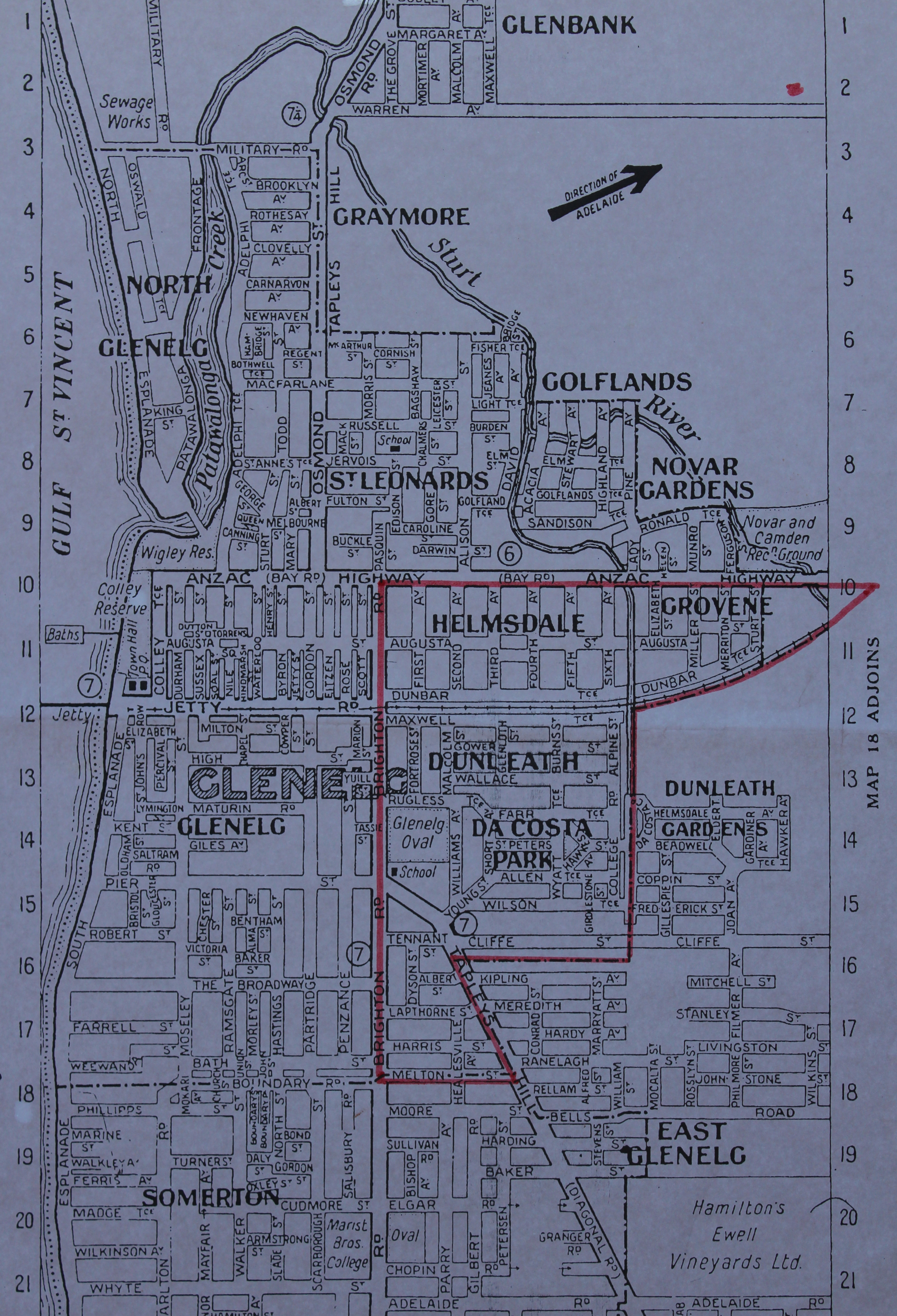 Reproduction of Map showing the former suburbs of Grovene, Helmsdale, Dunleath and Da Costa Park incorporated in November 1947 to form Glenelg East.